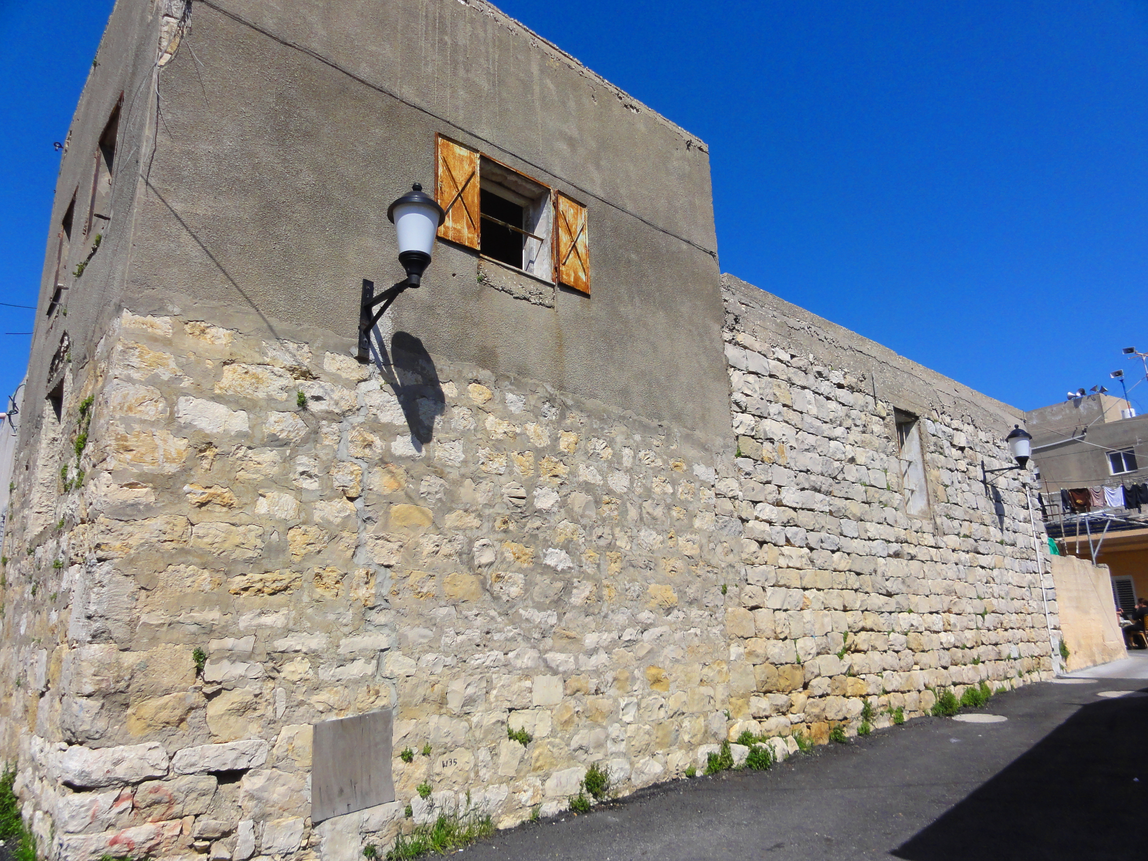 Isafiya old city